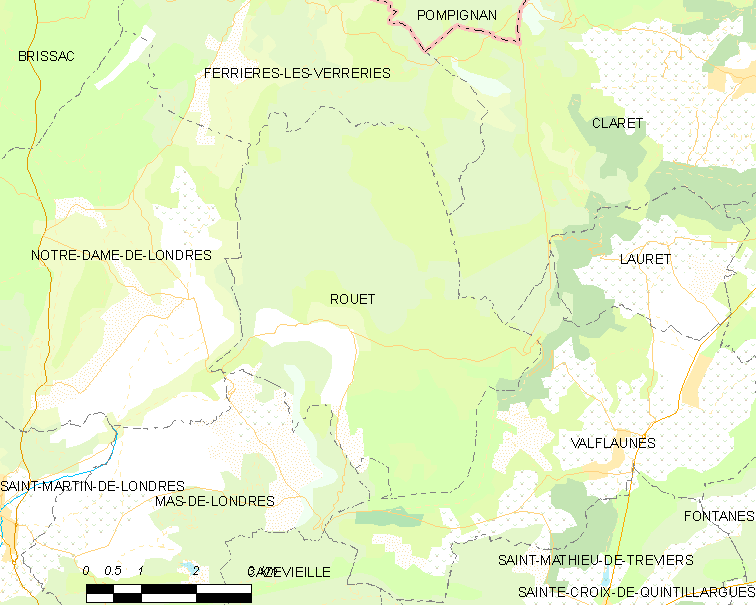 Map commune FR insee code 34236.png - Rouet (Hérault)